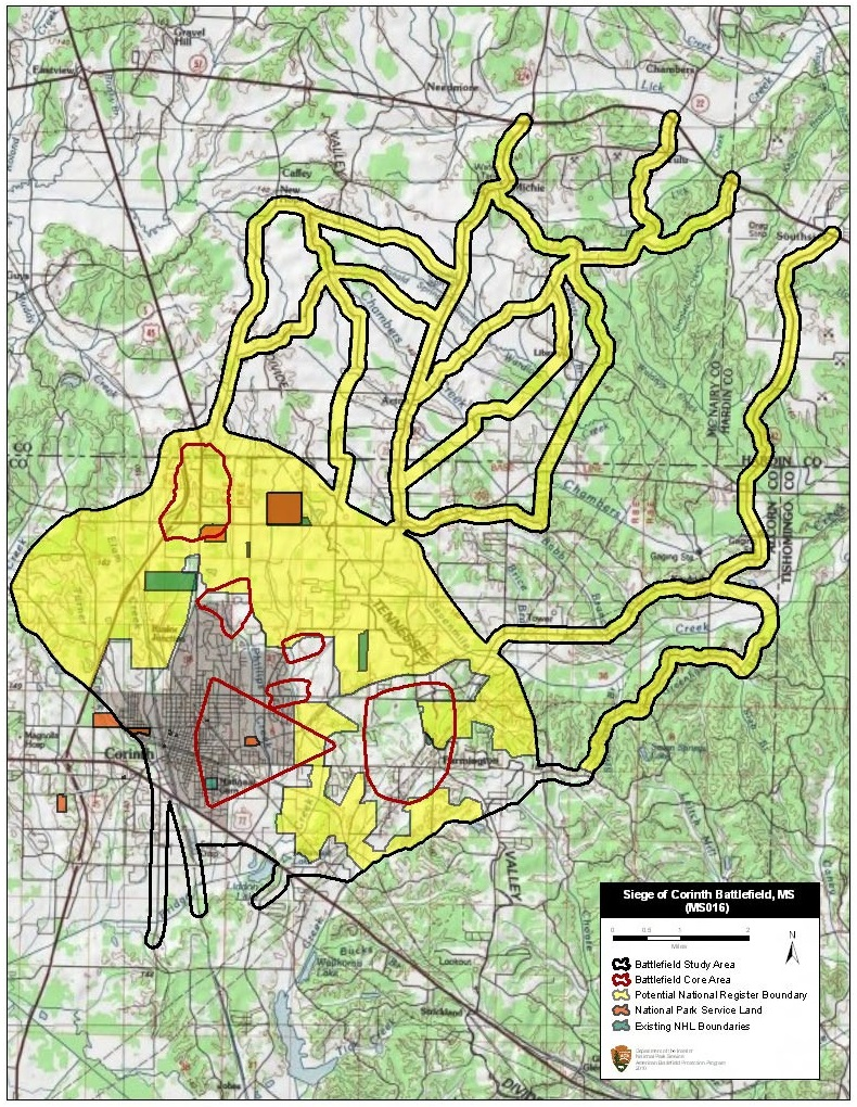 Map of battlefield core and study areas. The historic Memphis and Charlestown Railroad serves as the western edge of the Study Area, while the valley of Sevenmile Creek represents the eastern boundary. The heights surrounding Corinth in the north, which were dominated by Confederate earthworks, and the heights surrounding Corinth in the east, which were used by both Confederate and Federal forces, are included. The ABPP included the multiple converging Federal advance routes from Tennessee to illustrate the importance of Corinth as a regional military objective. The Mobile and Ohio Railroad, used as the Confederate retreat route, was included for its significance as the most direct avenue of escape from Corinth to the south. A large Core Area near Farmington represents the Confederate attack on the isolated Federal Army of the Mississippi on May 9th. The wedge-shaped Core Area represents the Federal bombardment of Corinth and its defenses on May 28th. The northernmost Core Area represents the location of most intense fighting as the Federal Army of the Tennessee advanced down the Purdy Road on May 22. The Core Areas along Phillips and Bridge creeks represent several intense skirmishes, particularly in the area of the Surrett House (May 21-28).